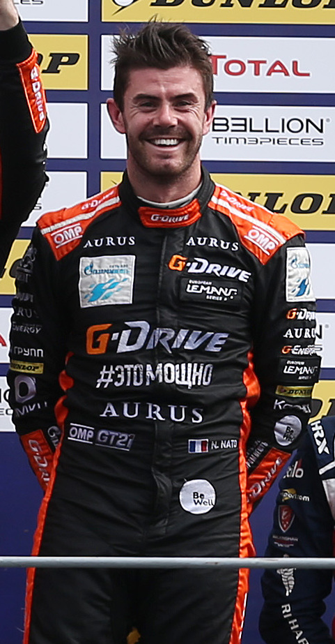 2019 4 Hours of Monza podium with Roman Rusinov, Job van Uitert, Norman Nato, Paul Lafargue, Paul-Loup Chatin, Memo Rojas, Ryan Cullen, Alex Brundle and William Owen